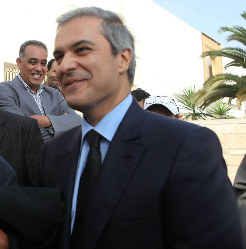 Moroccan Prince Moulay Hicham arrives at a Casablanca court on September 17th. الأمير المغربي مولاي هشام يصل إلى محكمة بالدار البيضاء في 17 سبتمبر. Le Prince marocain Moulay Hicham arrive au tribunal de Casablanca le 17 septembre.